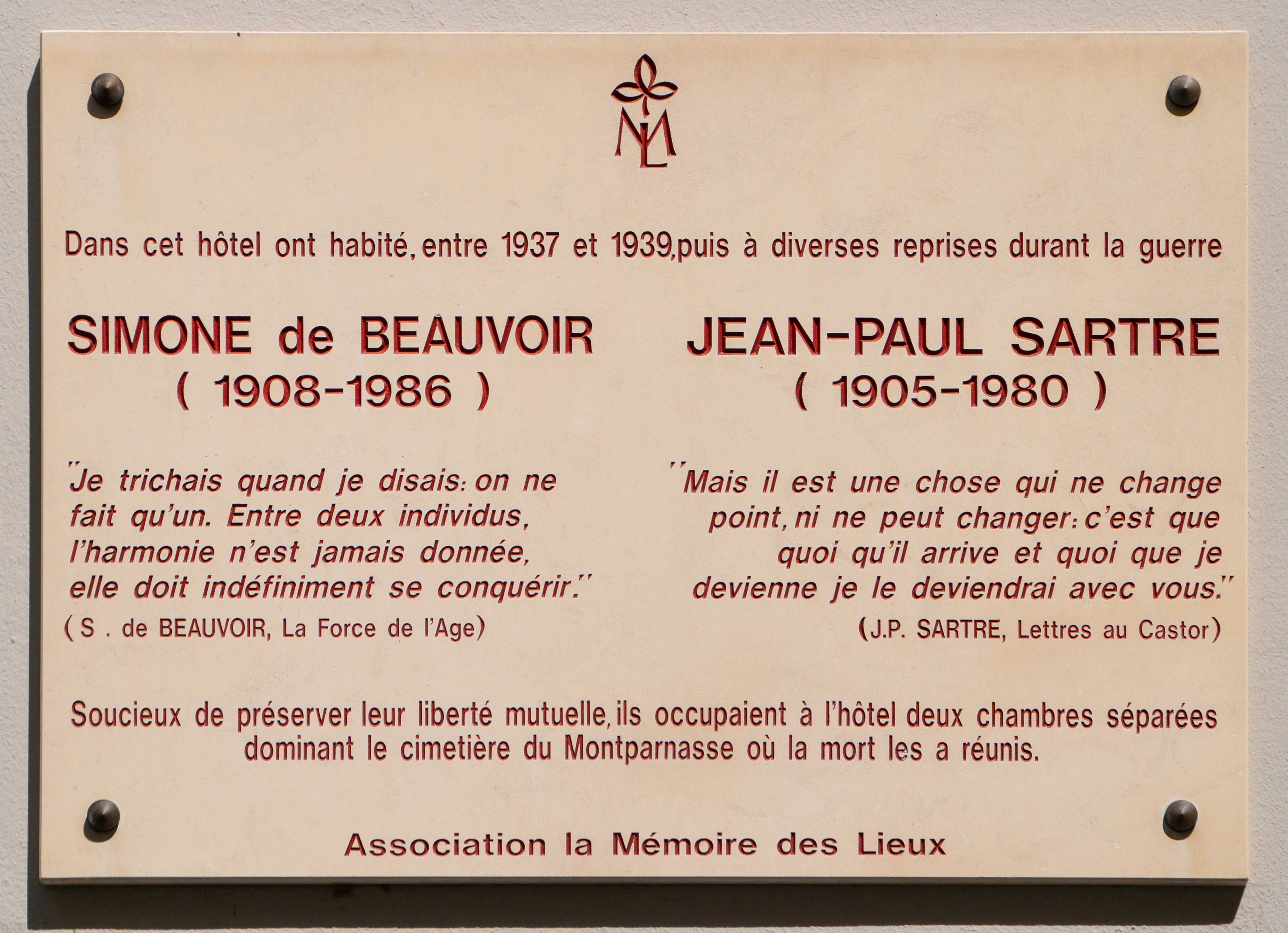 Read about them here